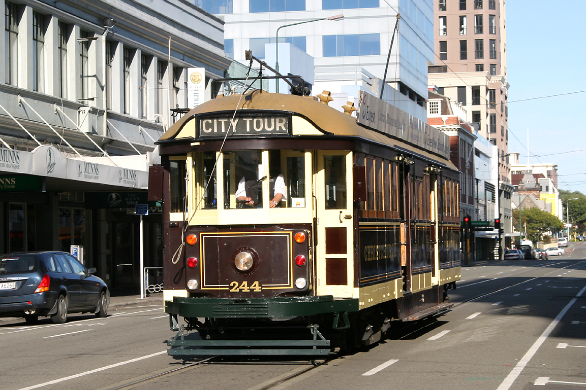 Christchurch No 244 Melbourne W2 tram